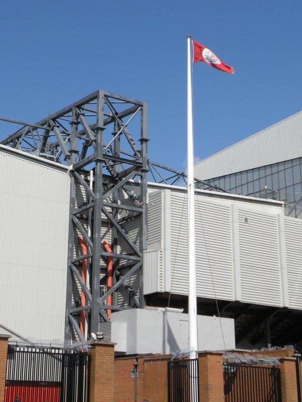 A topmast rescued from SS Great Eastern serving as a flagpole at the Kop, Anfield, Liverpool.